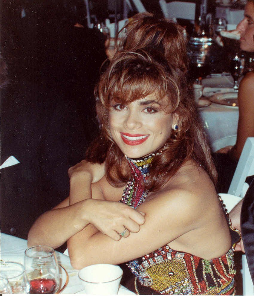 Paula Abdul, 42nd Emmy Awards - Sept. 1990- Governor's Ball - Permission granted to copy, publish or post but please credit "photo by Alan Light" if you can